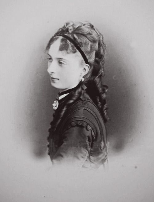 Catherine Dolgorukov